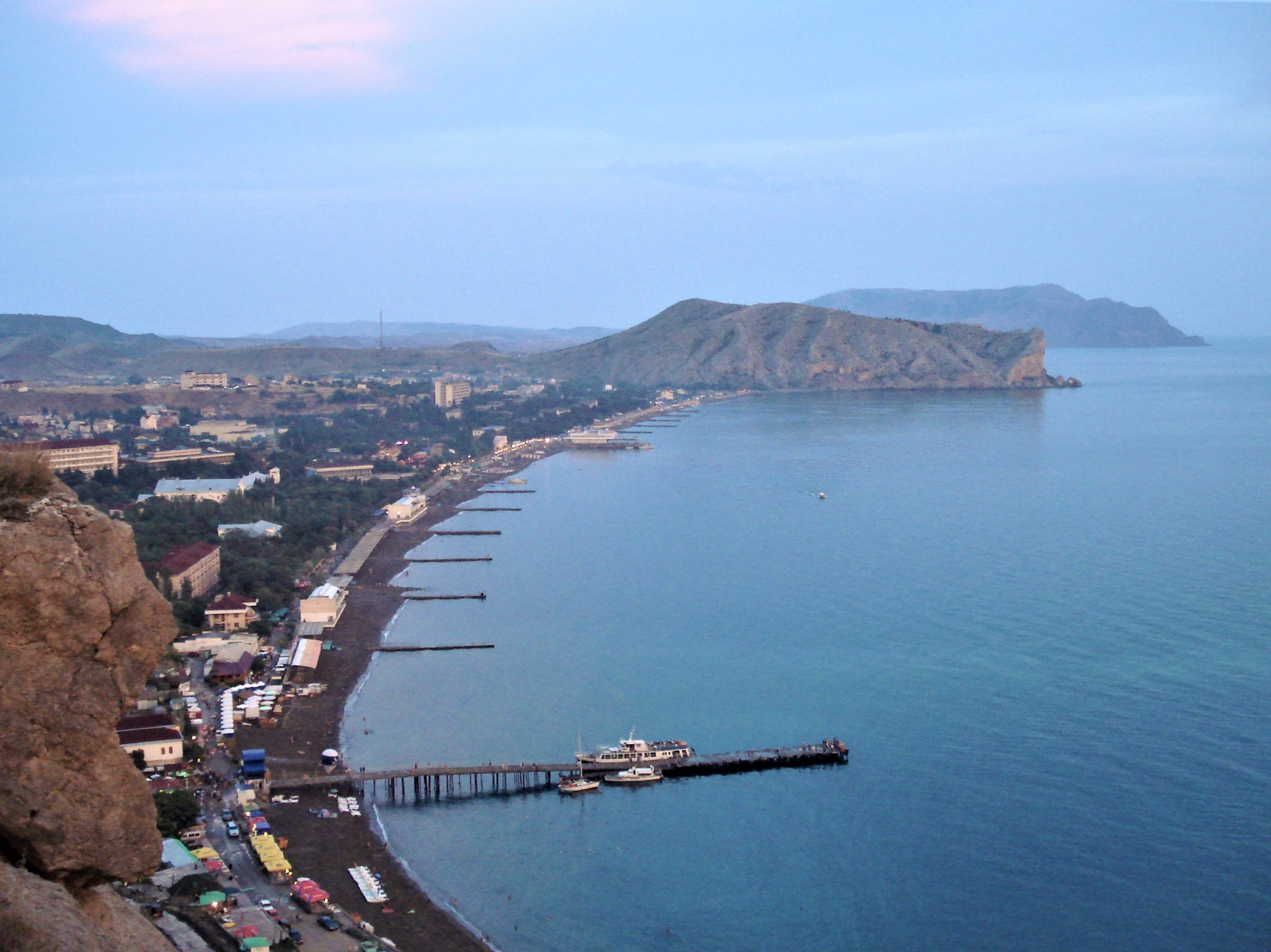 Sudak Bay in the evening. Crimea, Ukraine.